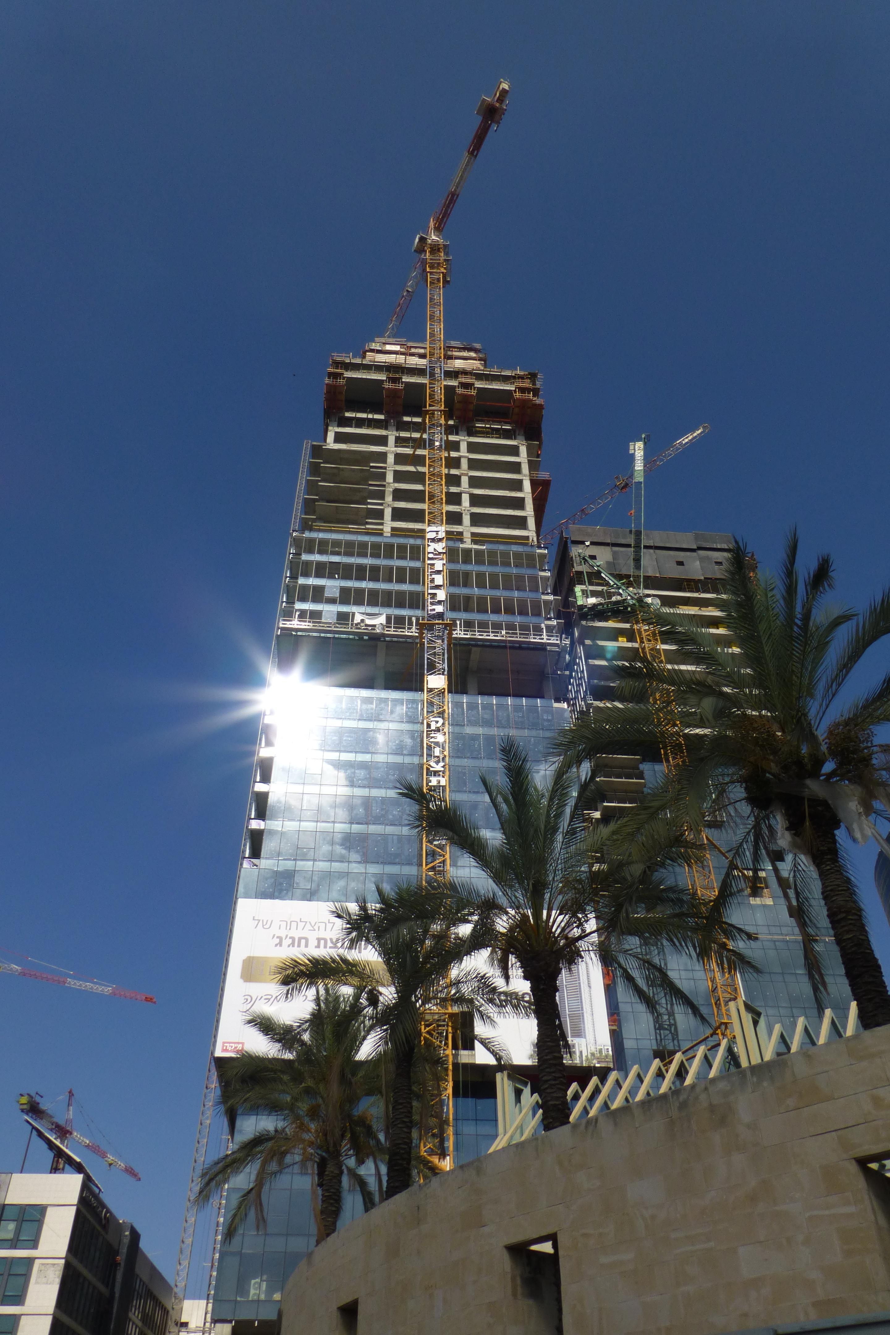 Haarbaa Street